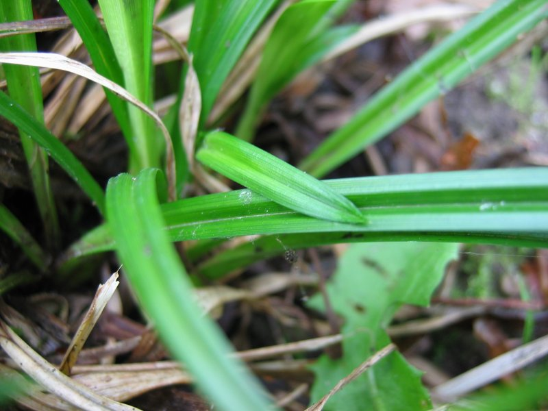 Wald-Segge Carex sylvatica, Rügen